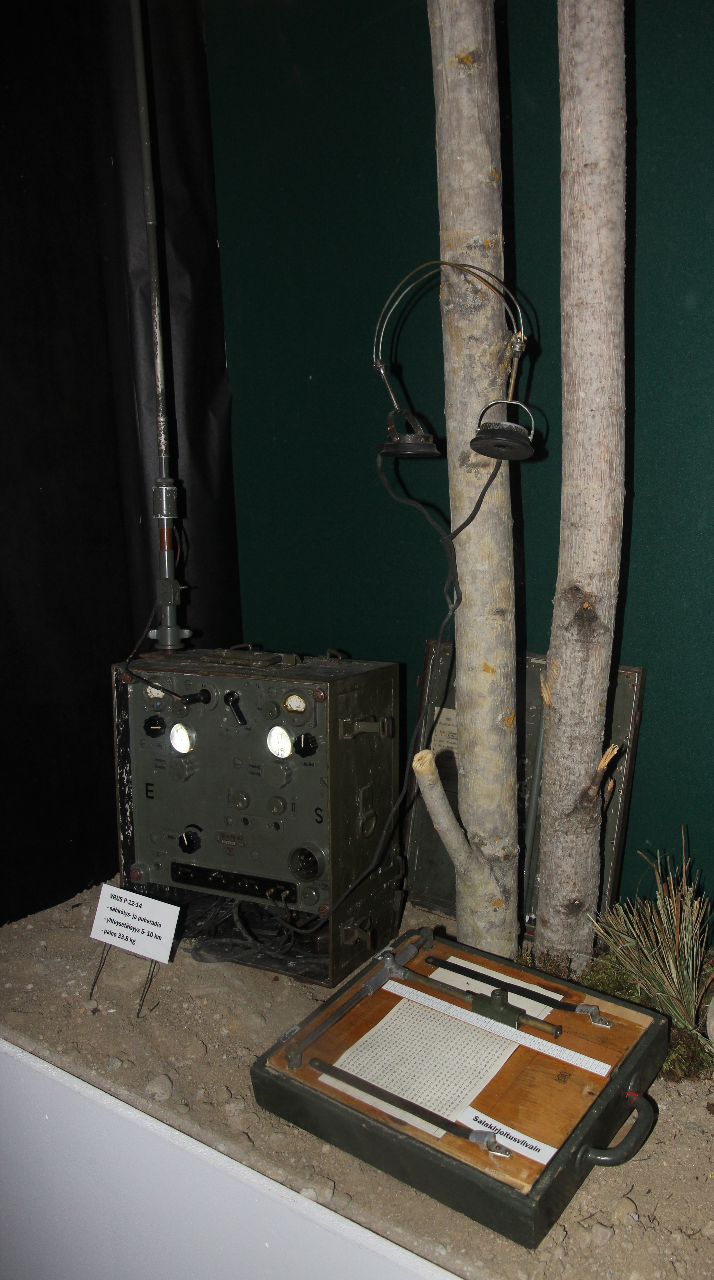 German Torn. Fu.d2 radio, Finnish designation VRUS P-12-14. Photographed in Mikkeli Infantry museum.